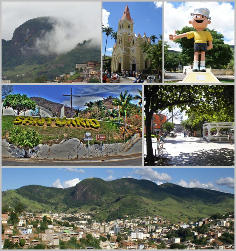 Montage of Caratinga, Minas Gerais, Brazil.